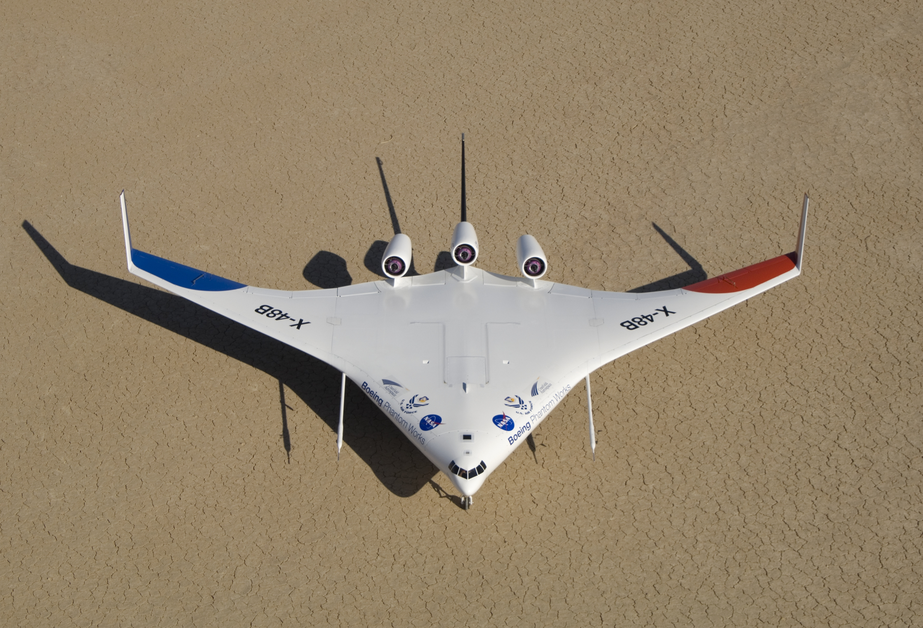 Boeing's colorful X-48B Blended Wing Body technology demonstrator shows off its unique triangular lines while parked on Rogers Dry Lake adjacent to NASA Dryden.